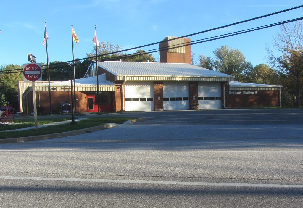 Howard County Fire and Rescue Station 8